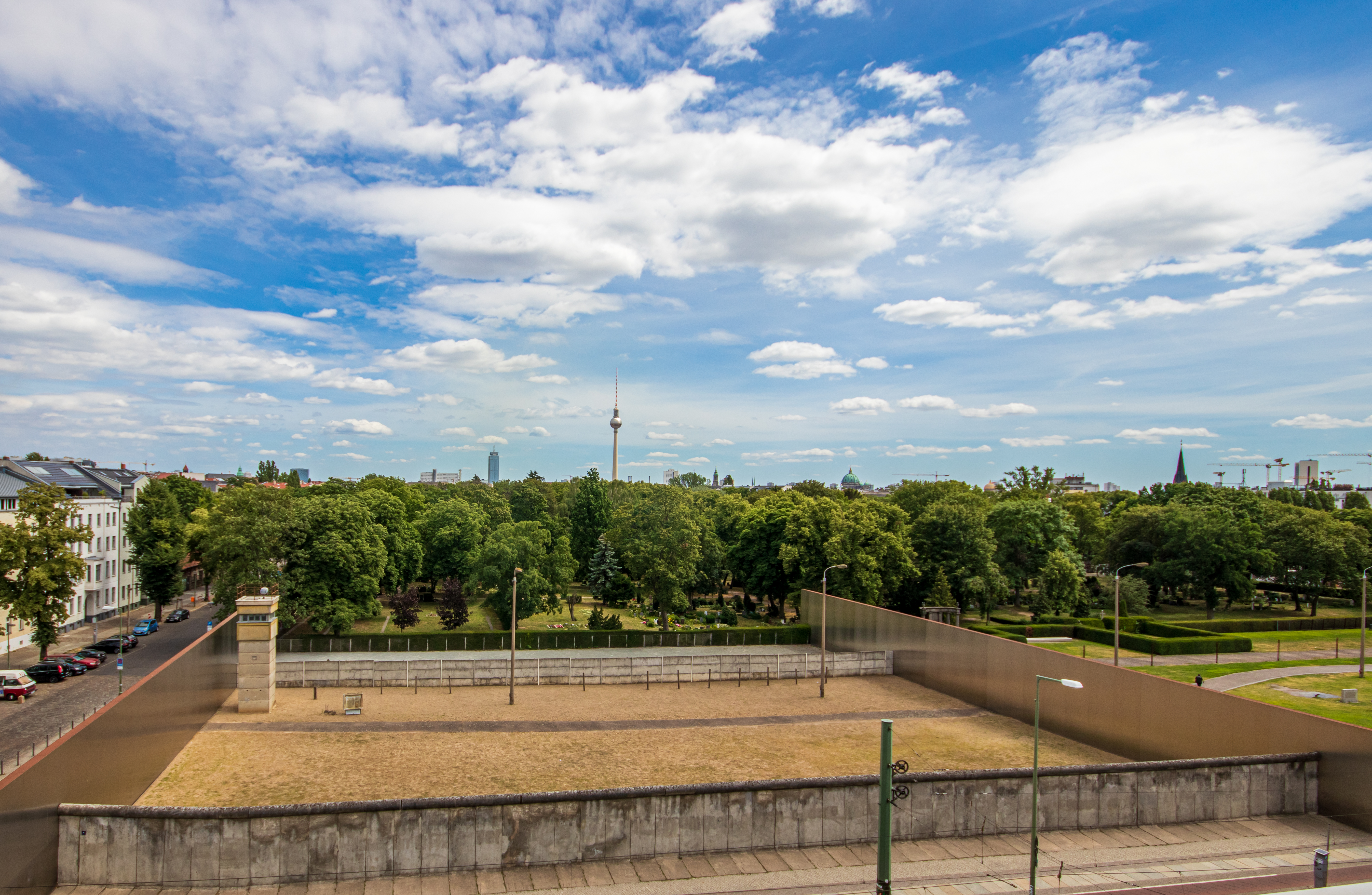 Remaining Berlin Wall section at Bernauer Straße